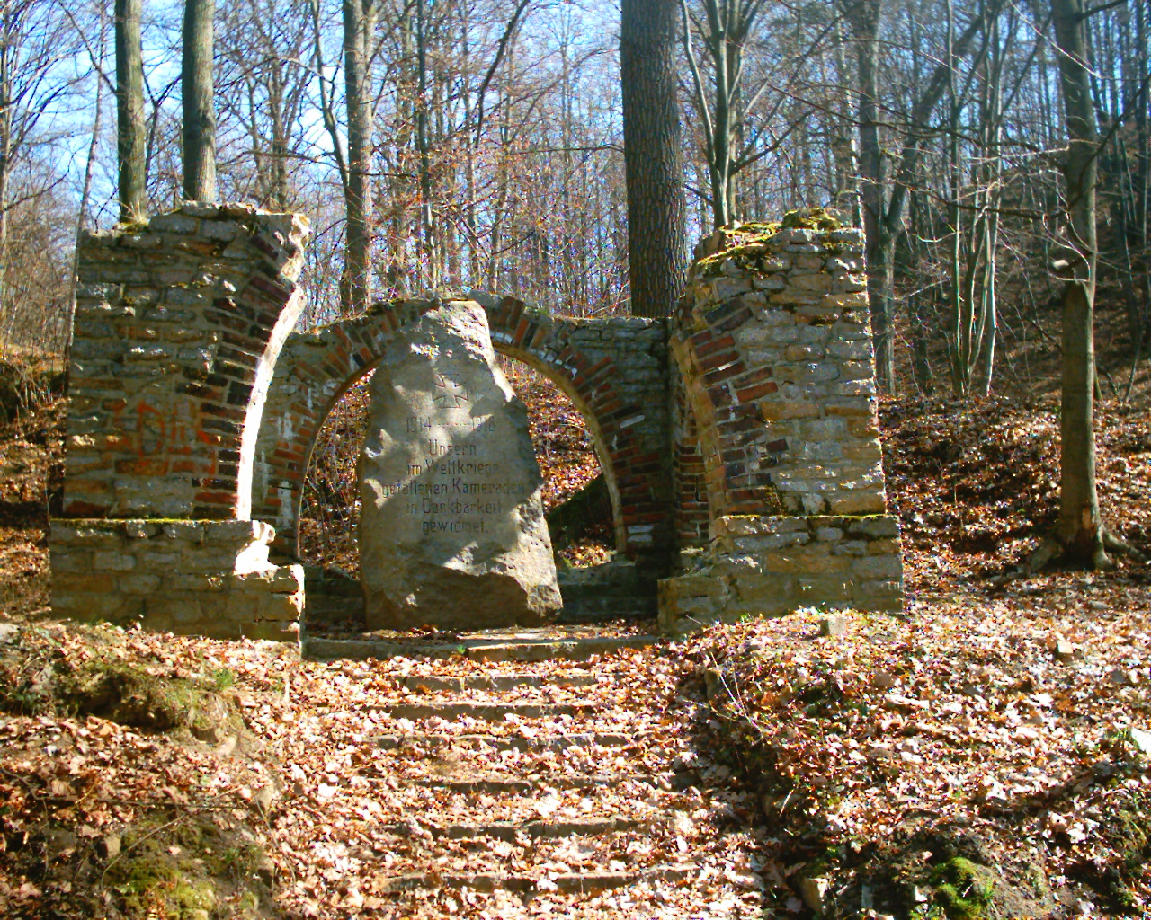 German memorial for soldiers of Zawidów, who died during World War I.